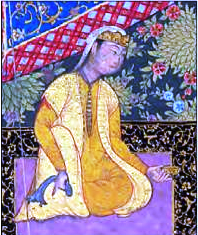 Painting of Manizha in The Shahnama of Shah Tahmasp